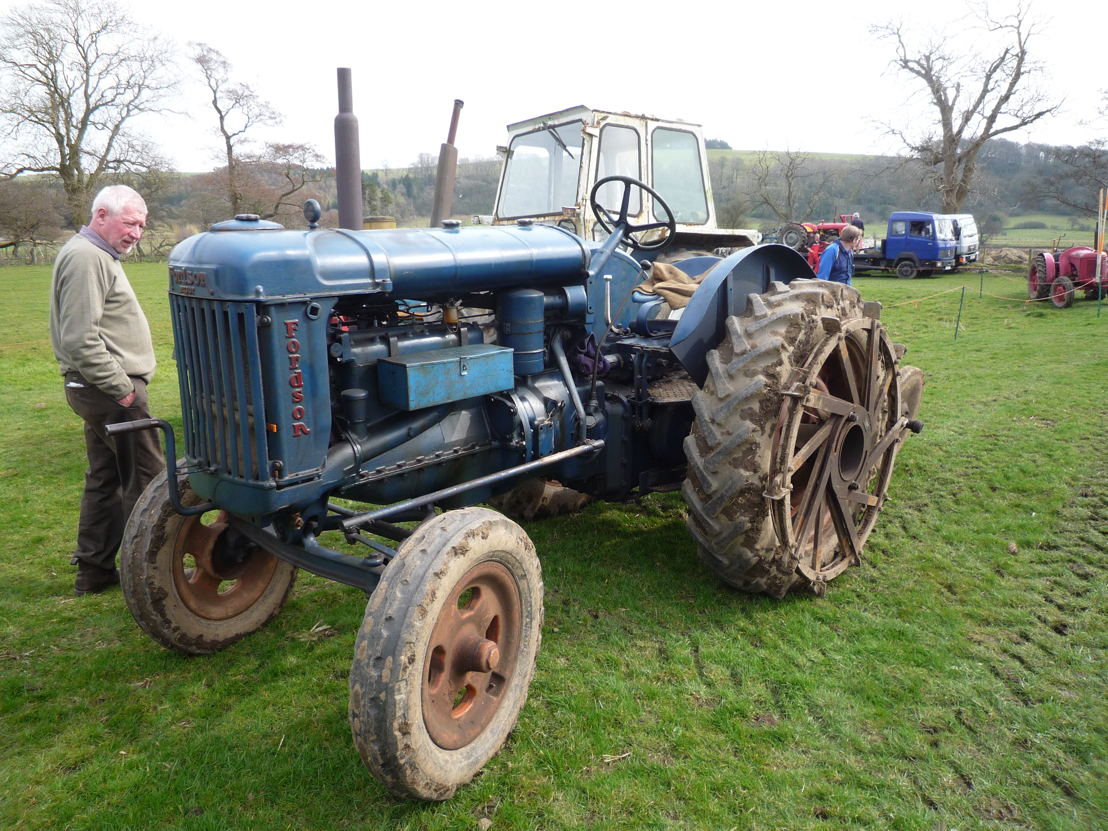 A Fordson Major tractor, Bolton-by-Bowland, Lancashire, England